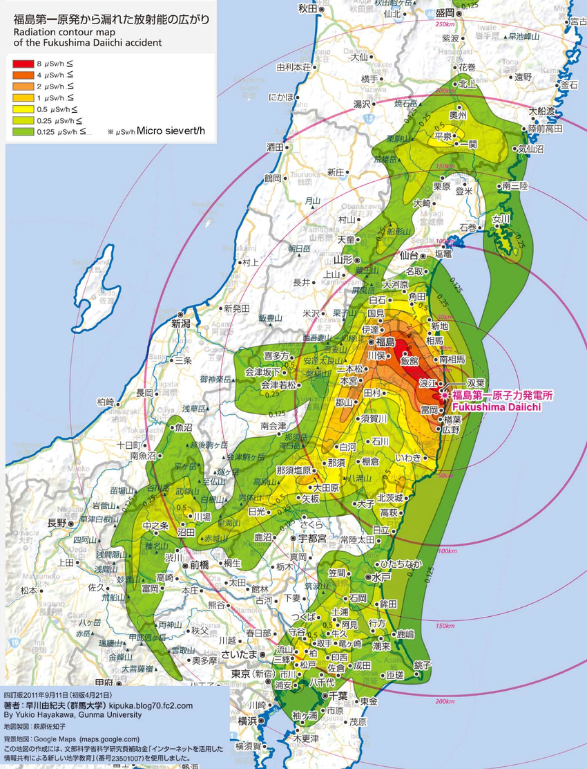 A map of the instant radioactivity of the Fukushima reactor area in μSv/hr, as measured from the air and the ground.